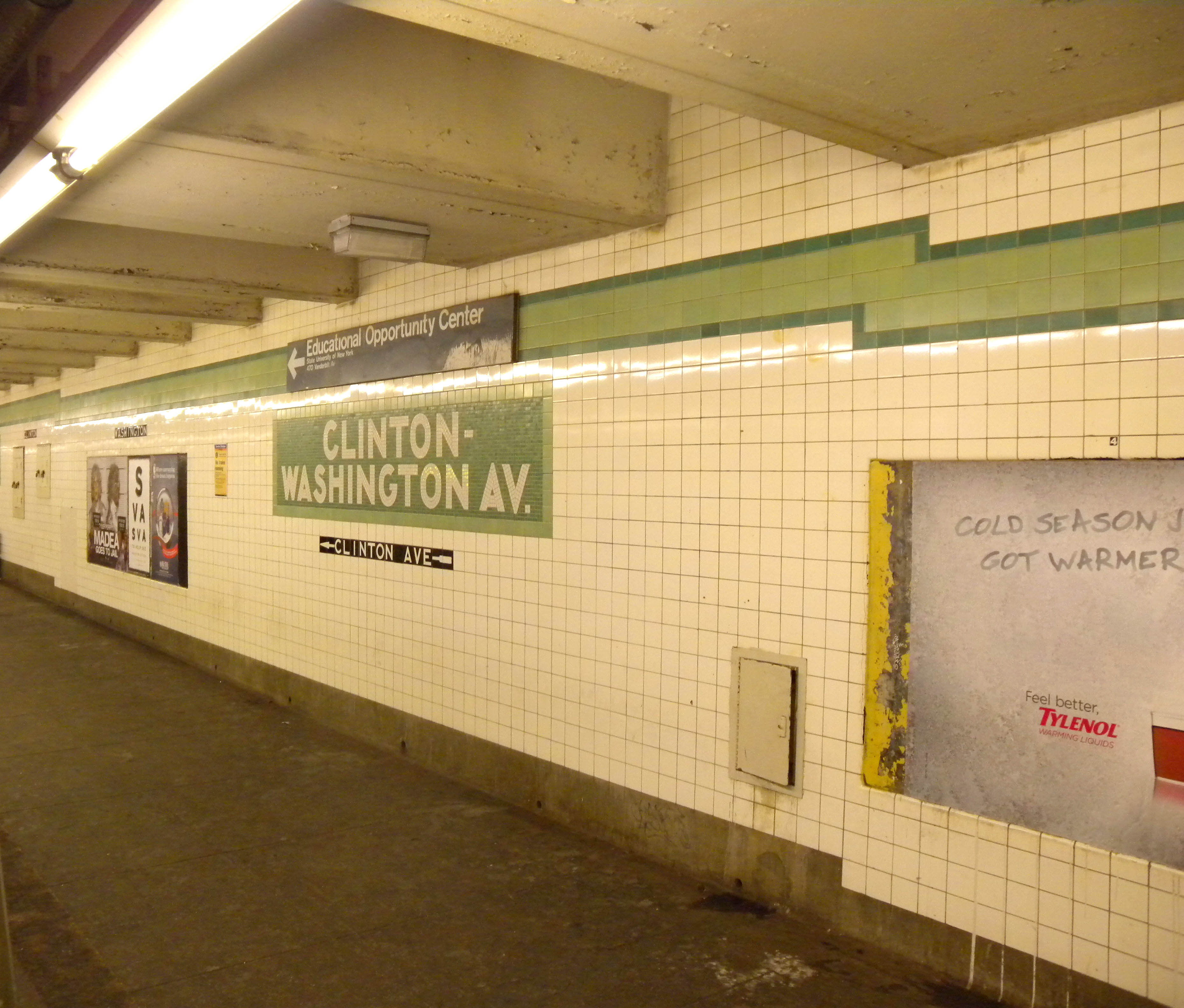 Westbound platform of Clinton Washington Avenues IND station. See also File:Clinton-Washington Av IND sta jeh.JPG